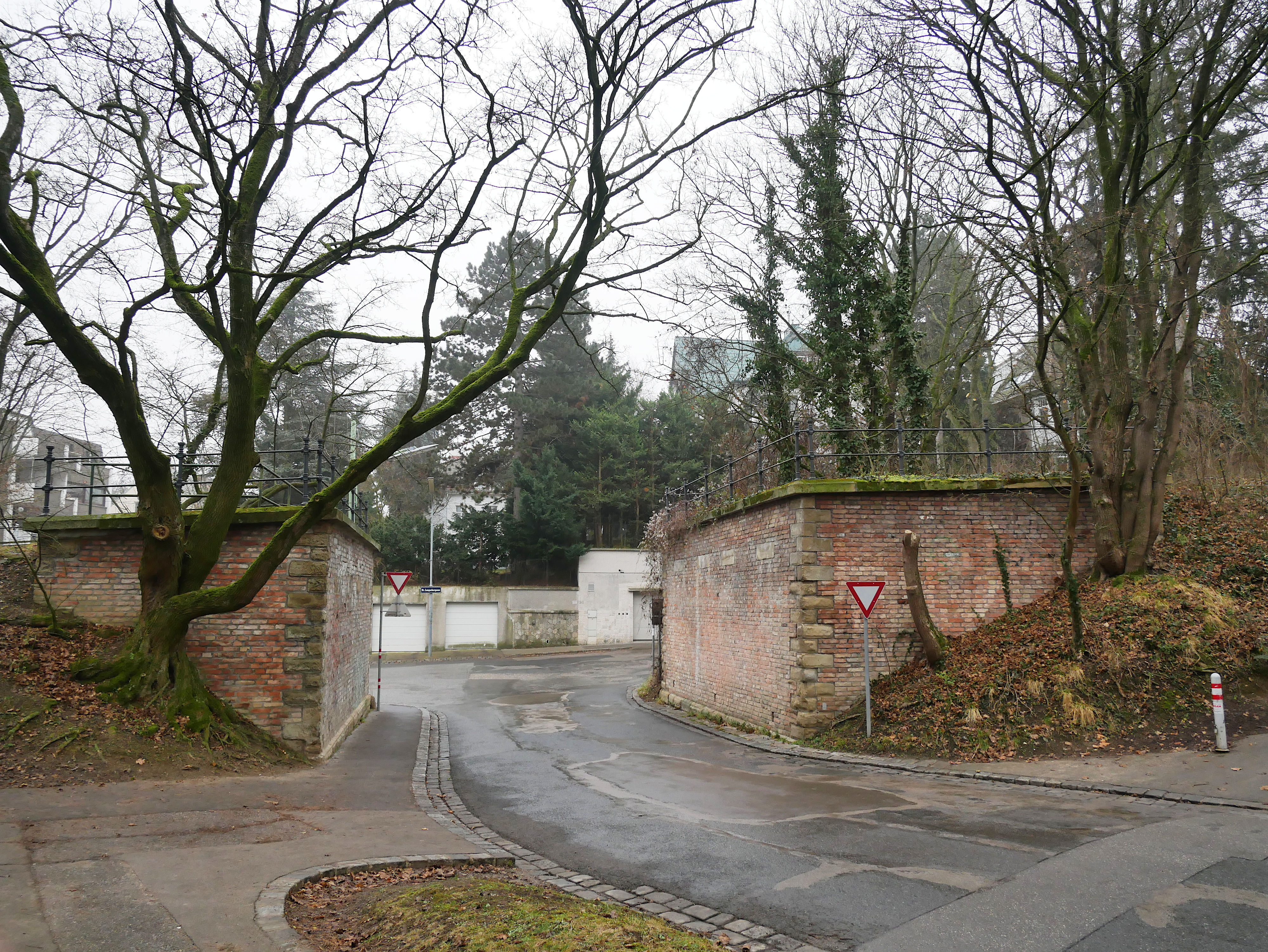 Old bridge abutments of the Kahlenbergbahn at Kahlenberger Straße in 1190 Vienna